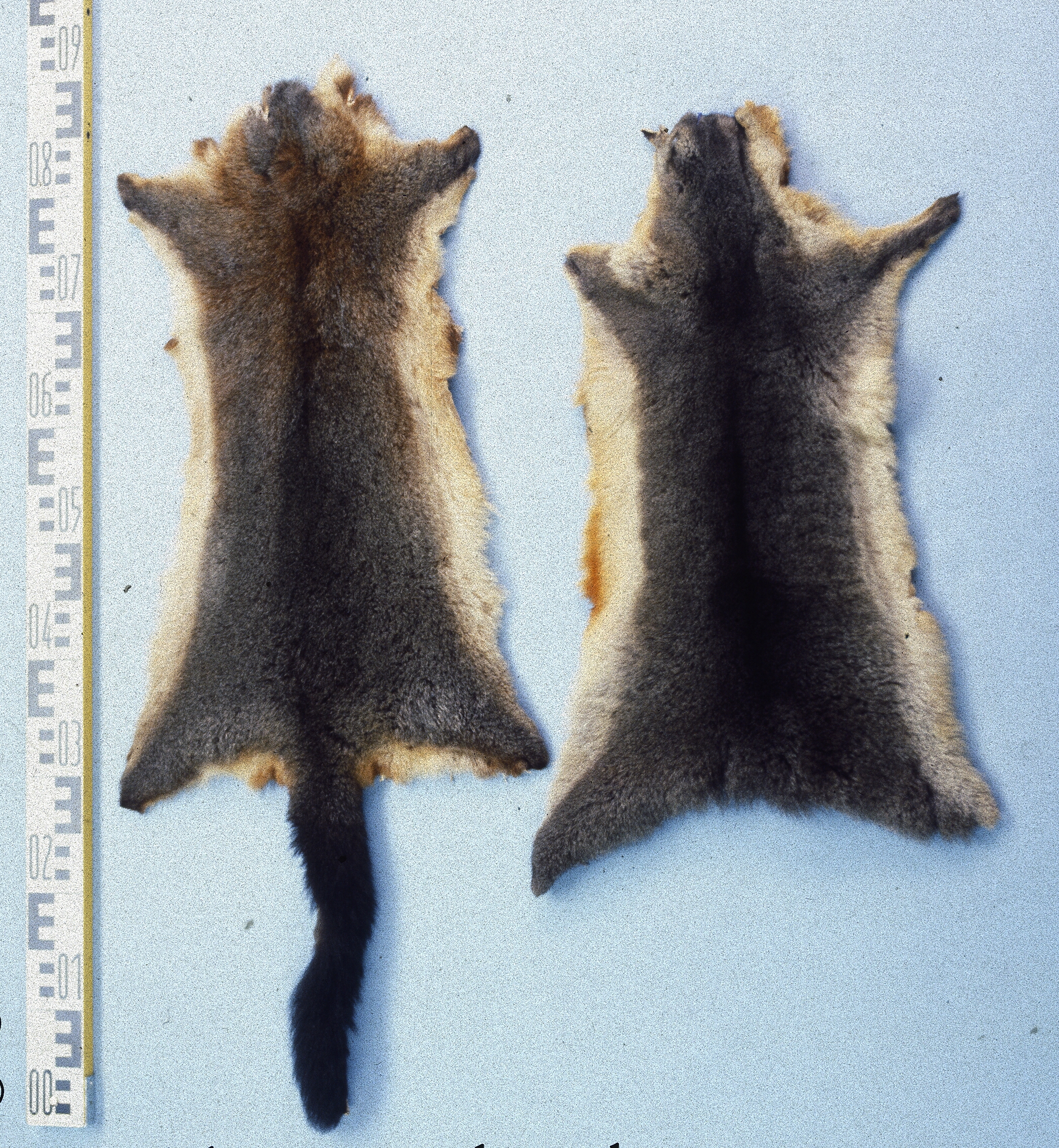 Brush-tailed Phalangerfur skin (Trichosurus vulpecula). Fur skin collection, Bundes-Pelzfachschule, Frankfurt/Main, Germany